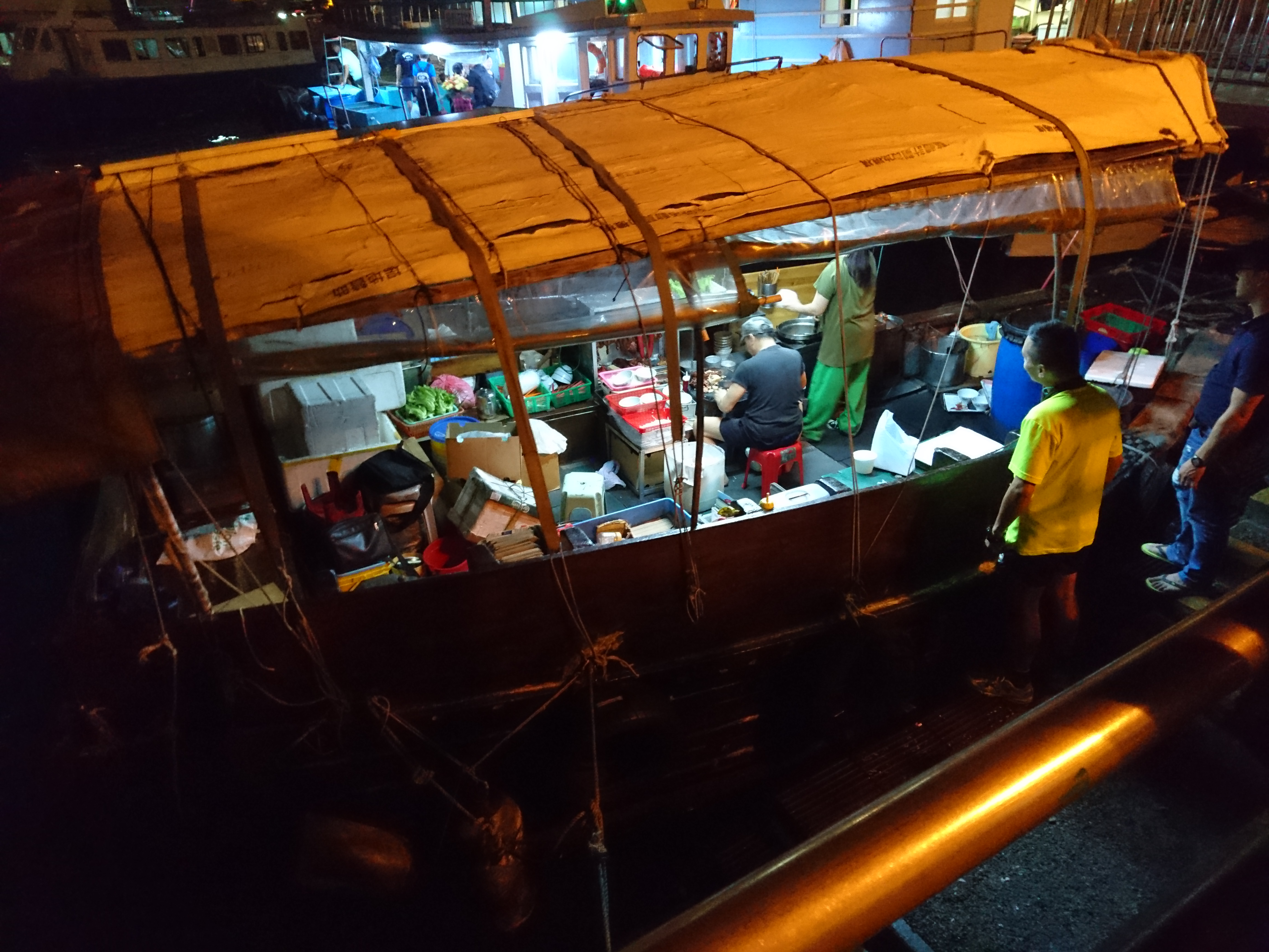 Noodle Boat in Aberdeen Promenade